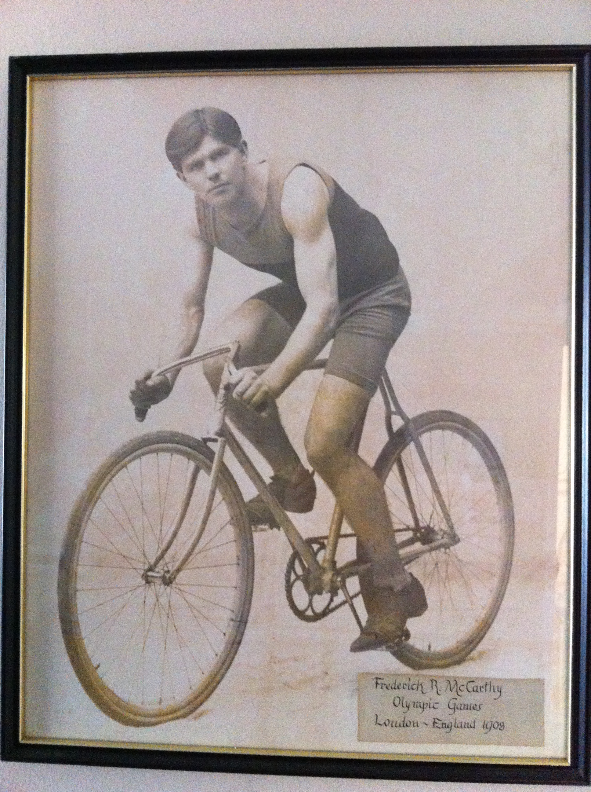 Frederick R McCarthy 1908 Olympic Games image submitted by Sylvia Fox McCarthy Bevan, his great granddaughter on behalf of his still living Daughter Mary McCarthy of Weston (one of 7 children) Ontario.